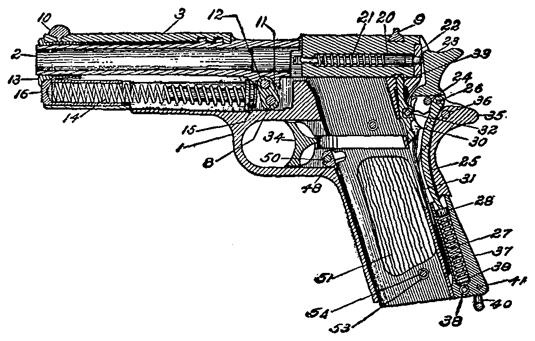 Longitudinal section of pistol [M1911], showing component parts in assembled position